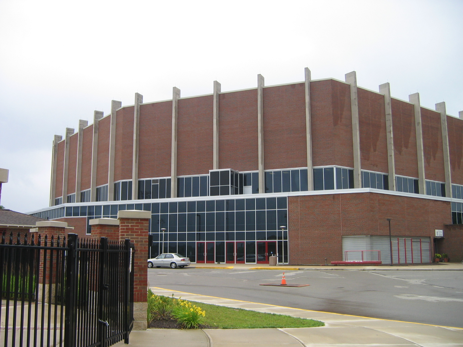 Football & Basketball Facilities Miami-OH U Basketball Arena